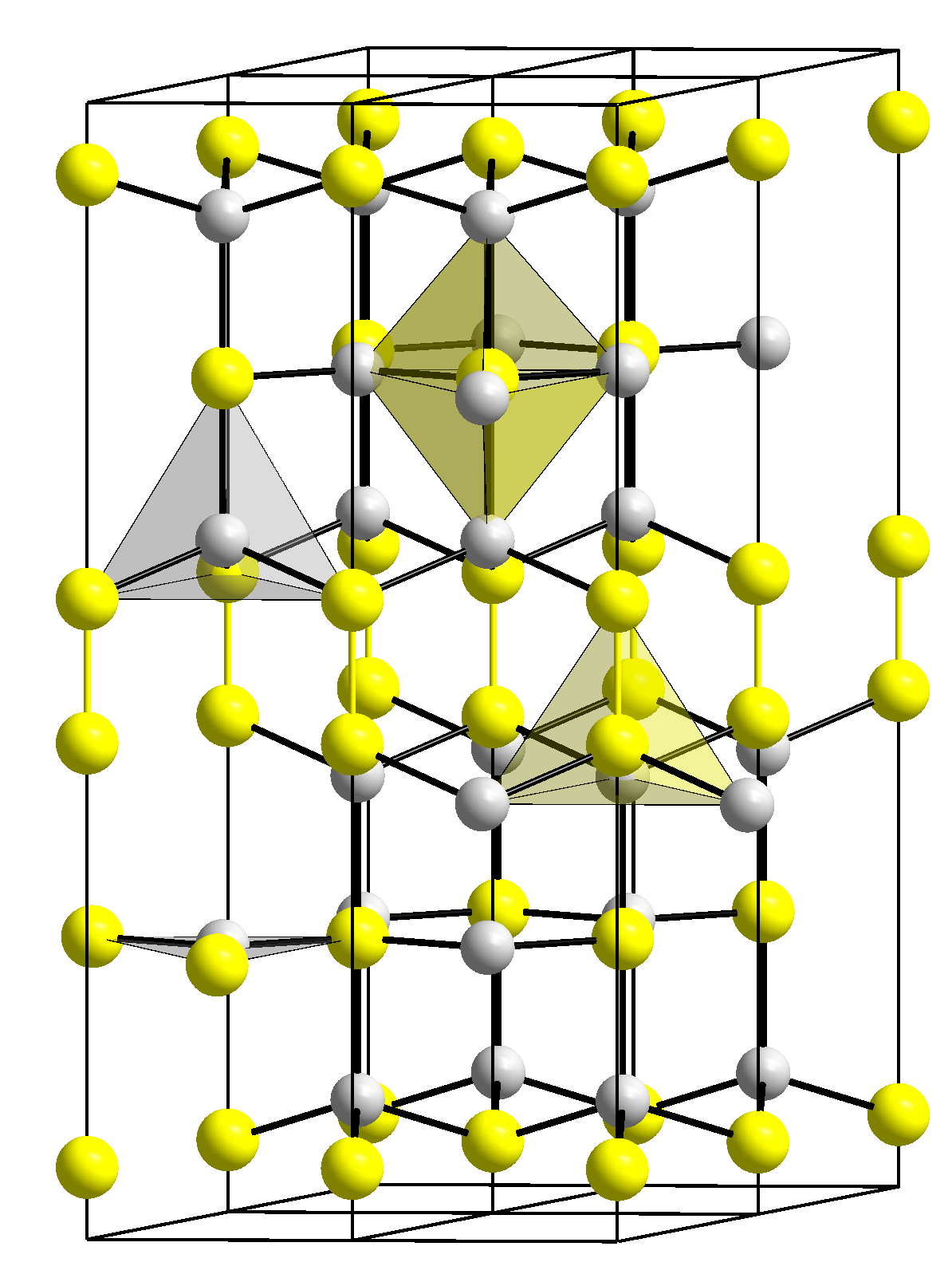 Crystal structure of Copper(II) sulfide